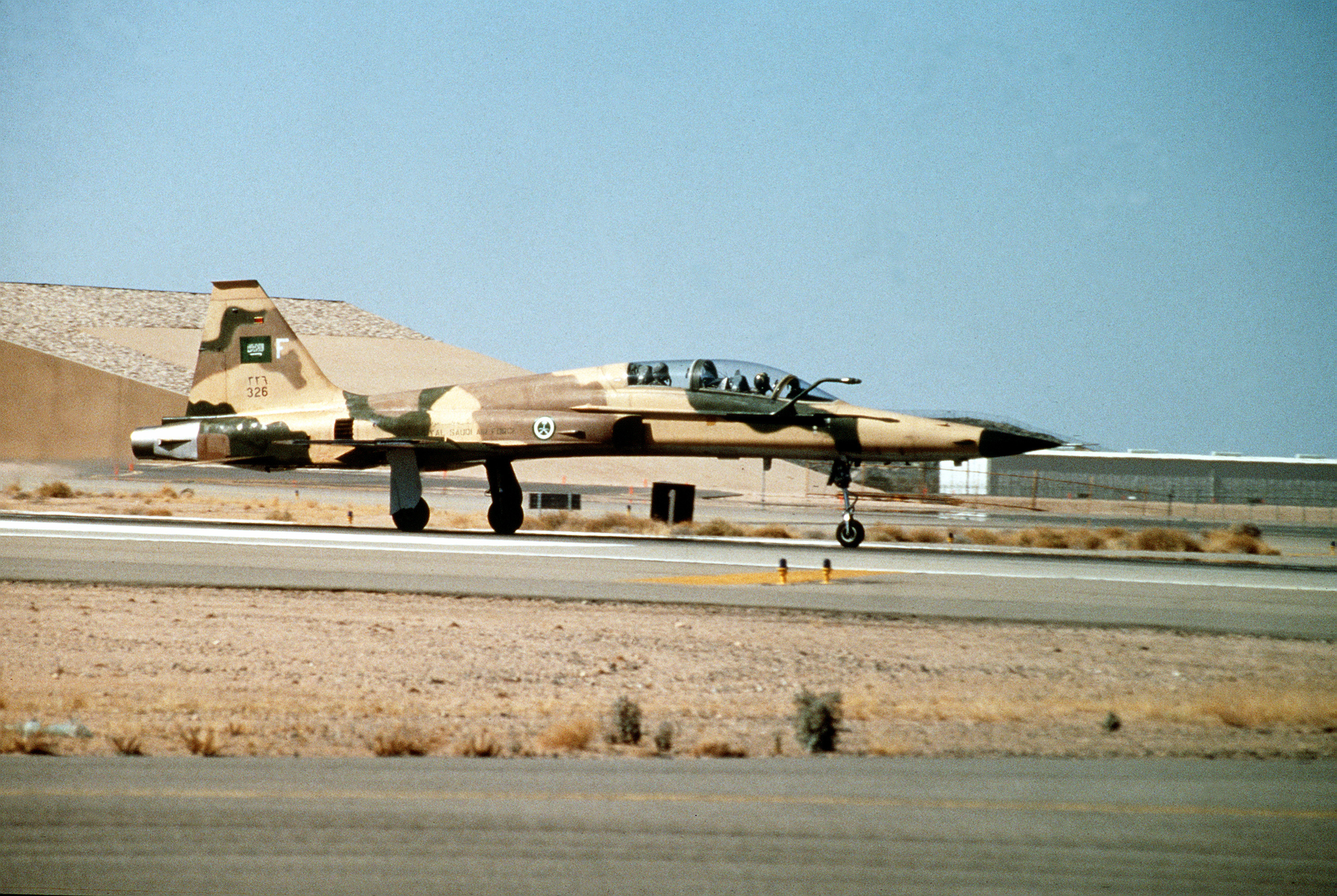 An F-5F Tiger II fighter aircraft of the 3rd Squadron, Royal Saudi Air Force, takes off during Operation Desert Shield.